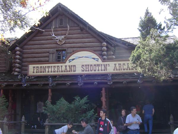 I took this picture and allow the usage of it